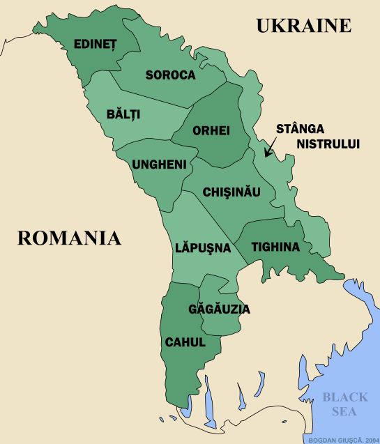 based on a CIA PD map.